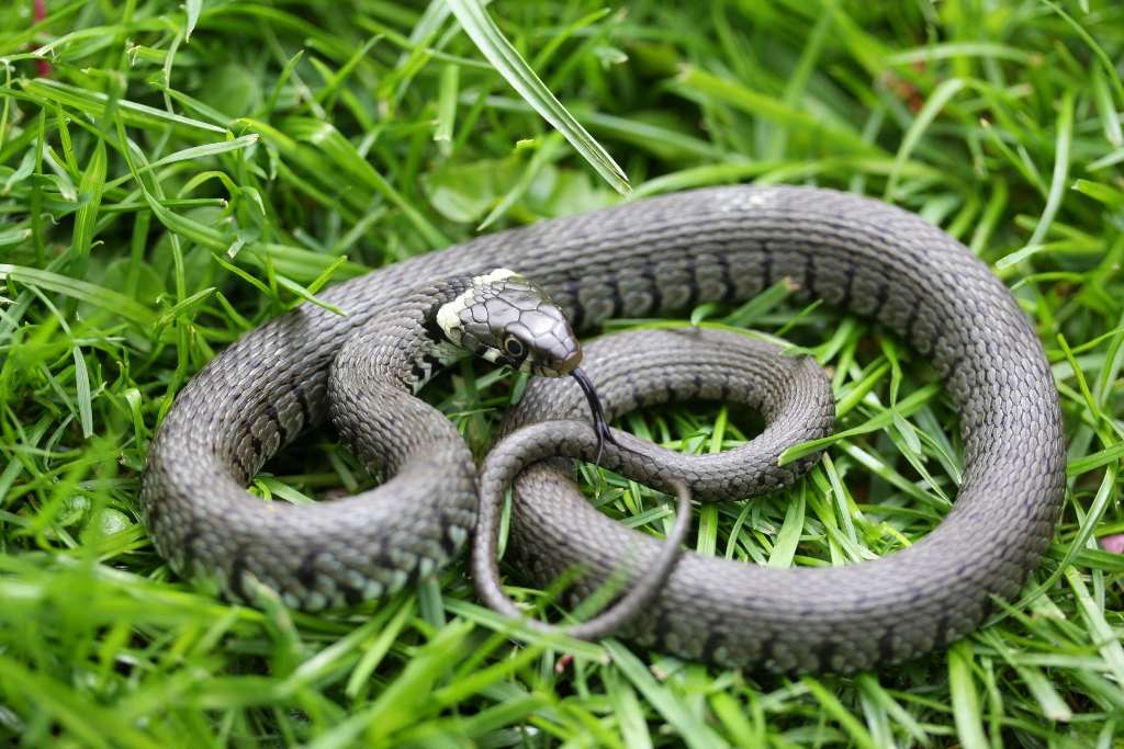 A young grass snake that hissed dramatically the whole time I took photos. Found in the Lea Valley Park, Hertfordshire.